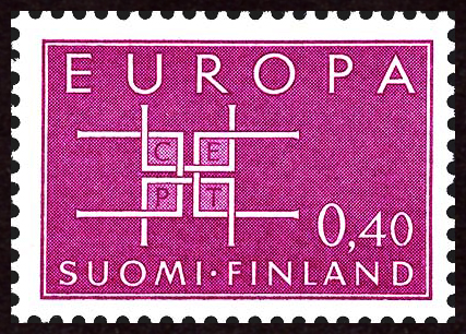 Postage stamp from Finland, 1963. Issue under the EUROPE program